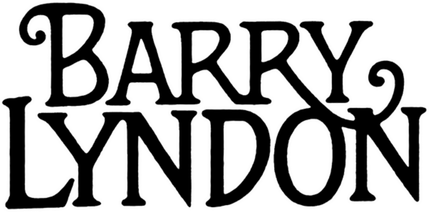 Barry Lyndon movie logo